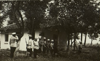 Bulgaria